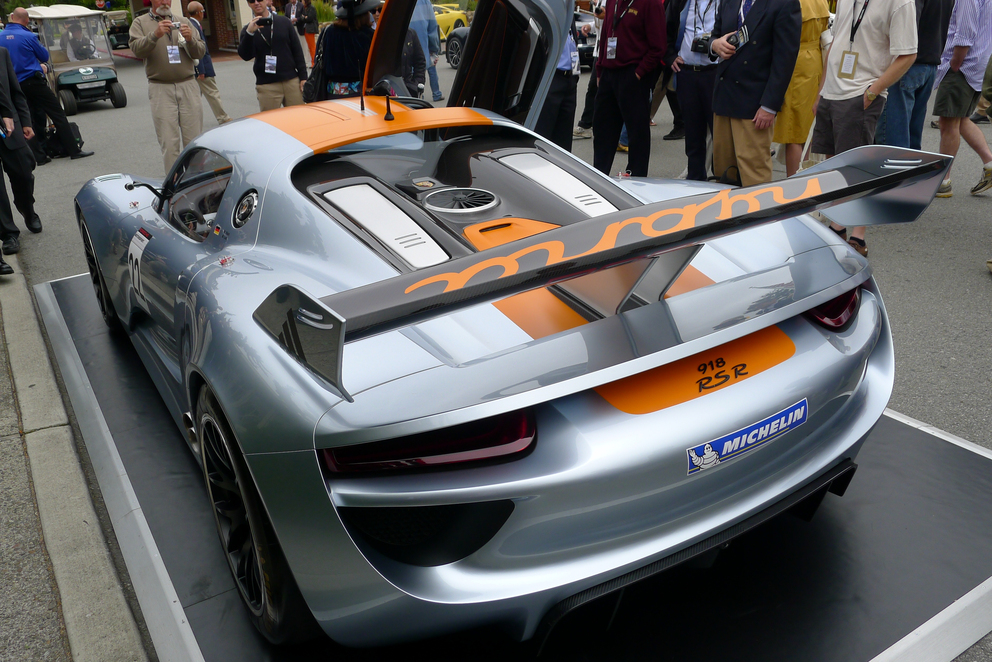 This is an insanely beautiful car. They've replaced the old school "Turbo" text on the spoiler with "Hybrid" since this car has an electric flywheel to generate more power.